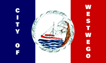 The flag is a blue-white-red vertical tricolor, with the parish seal in the center, depicting a fishing boat. CITY OF is written in white downwards in the blue stripe, WESTWEGO is similarly written in the red stripe.